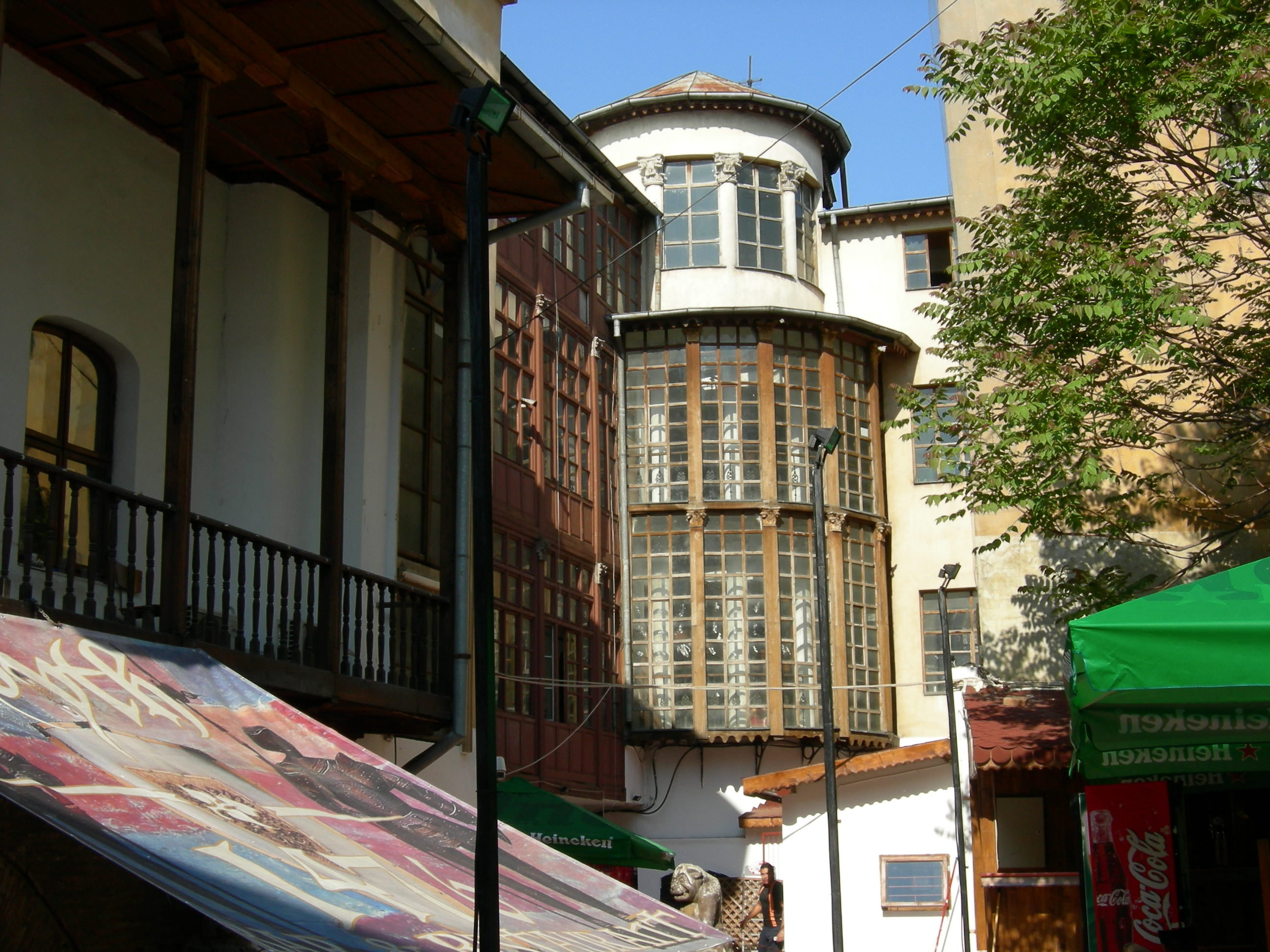 Curtea Sticlarilor (Glassmakers' Court) next to the ruins of the Curtea Veche (Old Court), Bucharest, Romania, now housing several glassmakers' studios, hence the name; one of these studios is Sticerom (sticle = "glass", Rom short for "Romania"). I had long been under the impression that this was an inn, but a Bucharestean correspondent says that the building was actually part of the Old Court, the "Palatul Doamnei şi Coconilor" ("The Palace of the Ladies and Lads"), built by Prince Ştefan Cantacuzino in 1714-1716. At that time the Curtea Veche would have comprised much of what is now the Lipscani district.